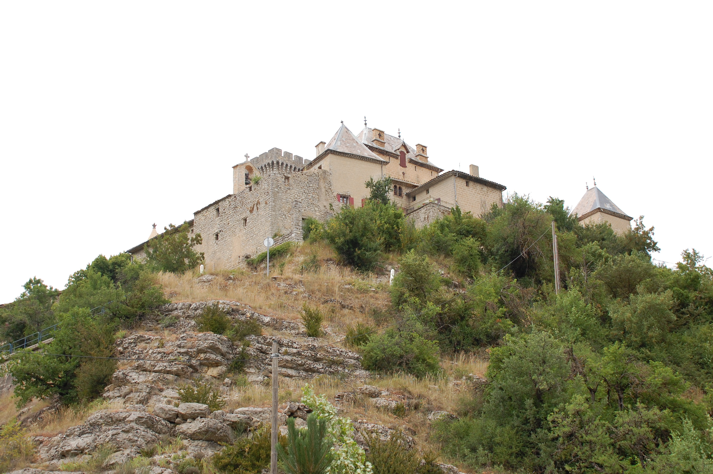 Picture : Castel of Aulan - Drome - France